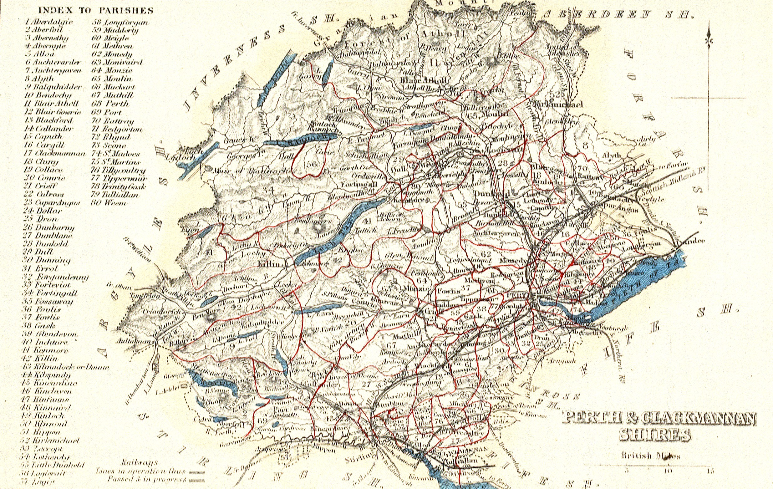 Imperial gazeteer of Scotland, or, Dictionary of Scottish Topography. Volume 2. Edited by Rev. John Marius Wilson.